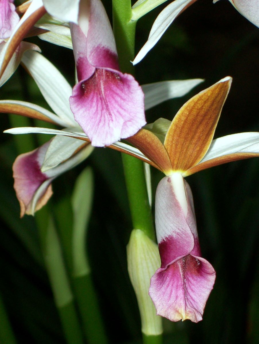 Phaius australis flowers, Royal Botanic Gardens, Sydney